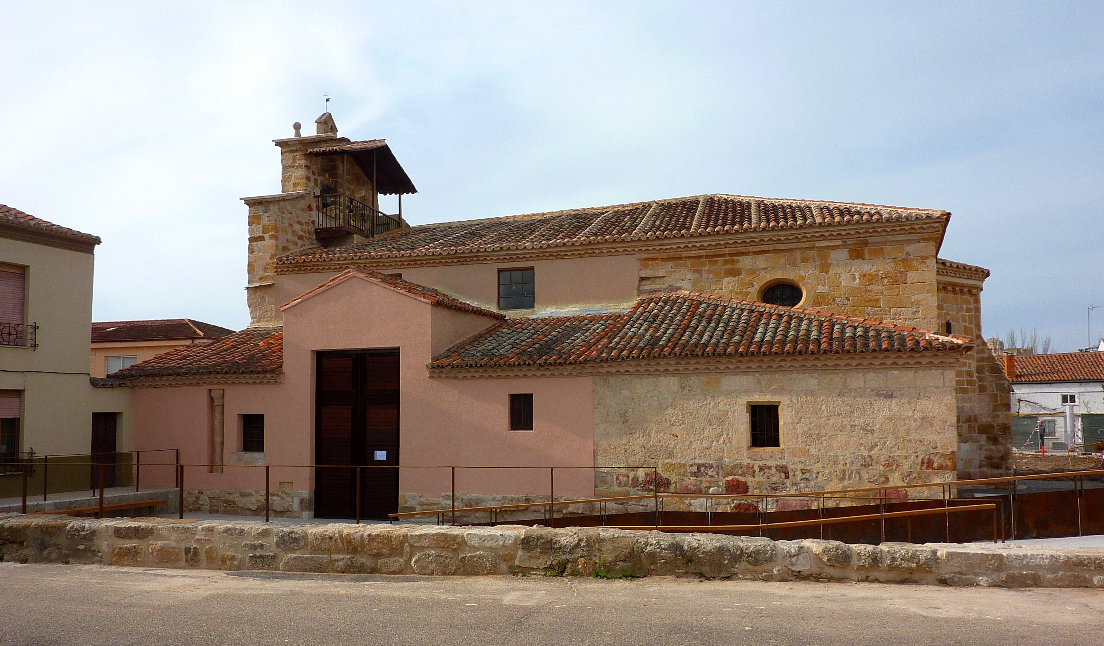 Church of San Frontis (Saint Front), Zamora, Spain.